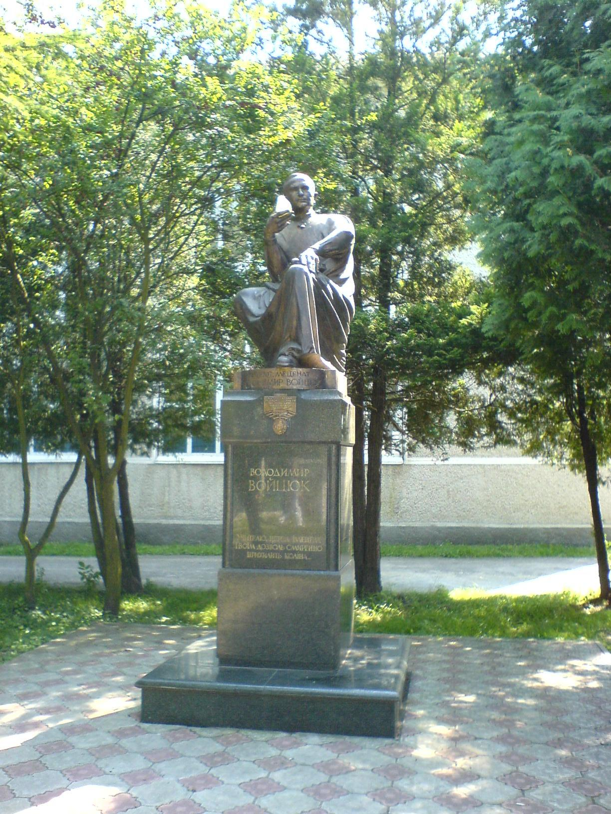 Volodymyr Voytsyuk Monument in Jezupol